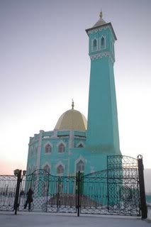 Nurd Kamal Mosque: World's Most Northern Mosque